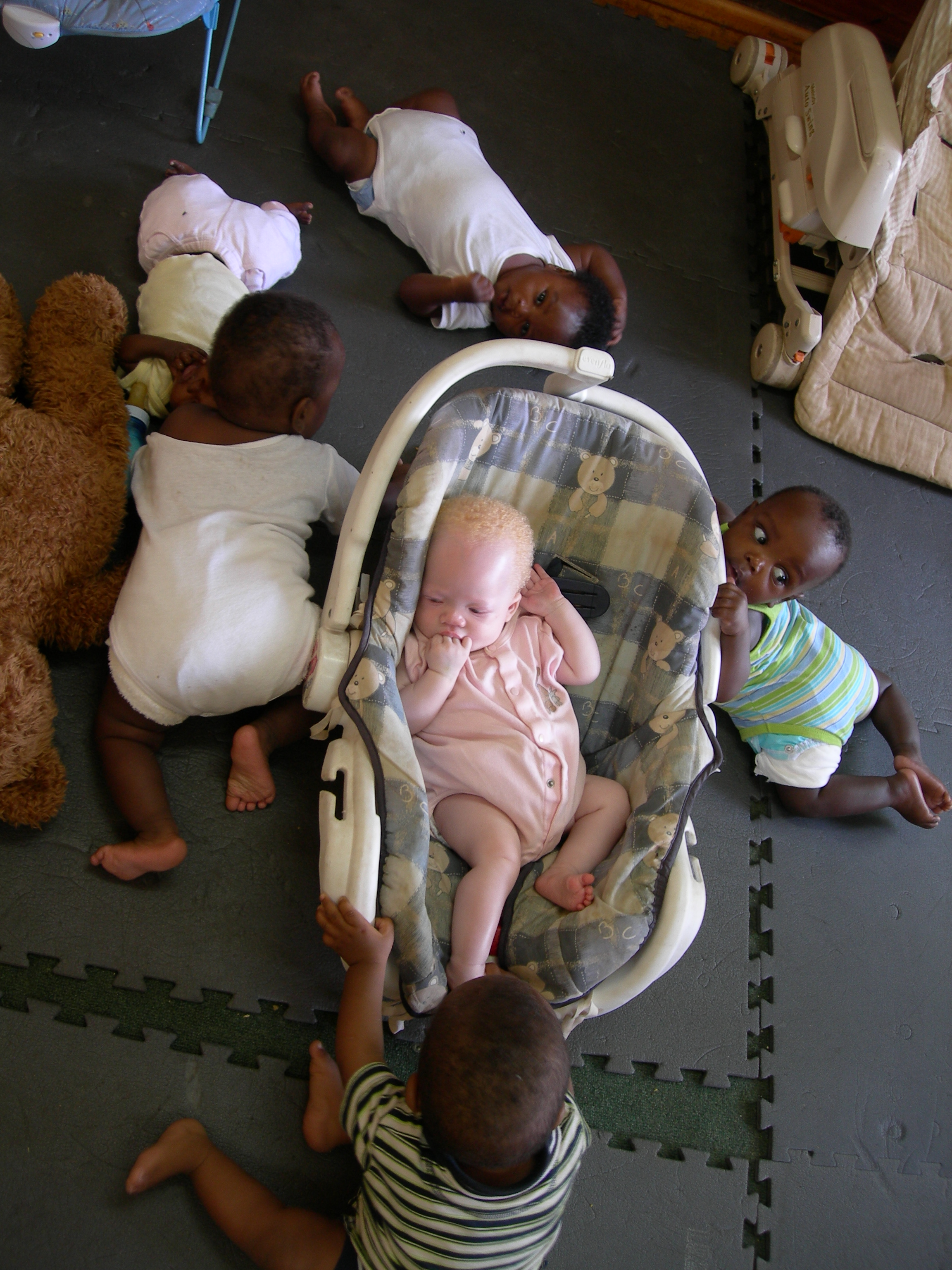 Six infants in the Ministry of Hope Nursery in Lilongwe. The albino baby in the middle was abandonded by her father. Her mother died in labour and the baby was thought to be bewitched.